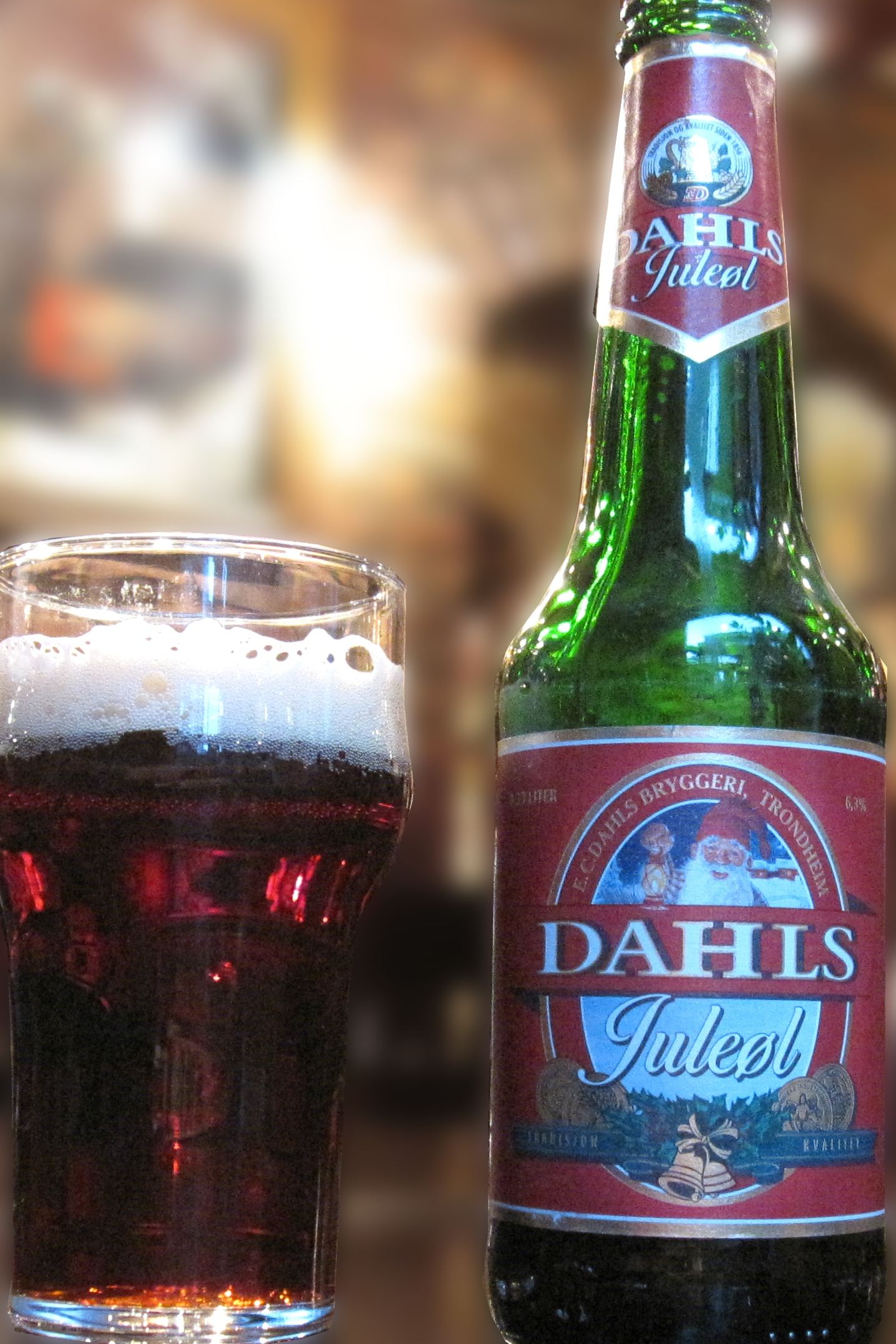 The Christmas beer from Trondheim brewery E._C._Dahls_bryggeri E.C. Dahls. At Beer Palace in Oslo.